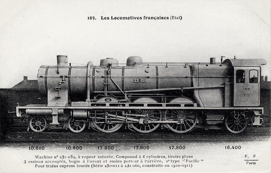 Locomotive 231 État 059, 1910.